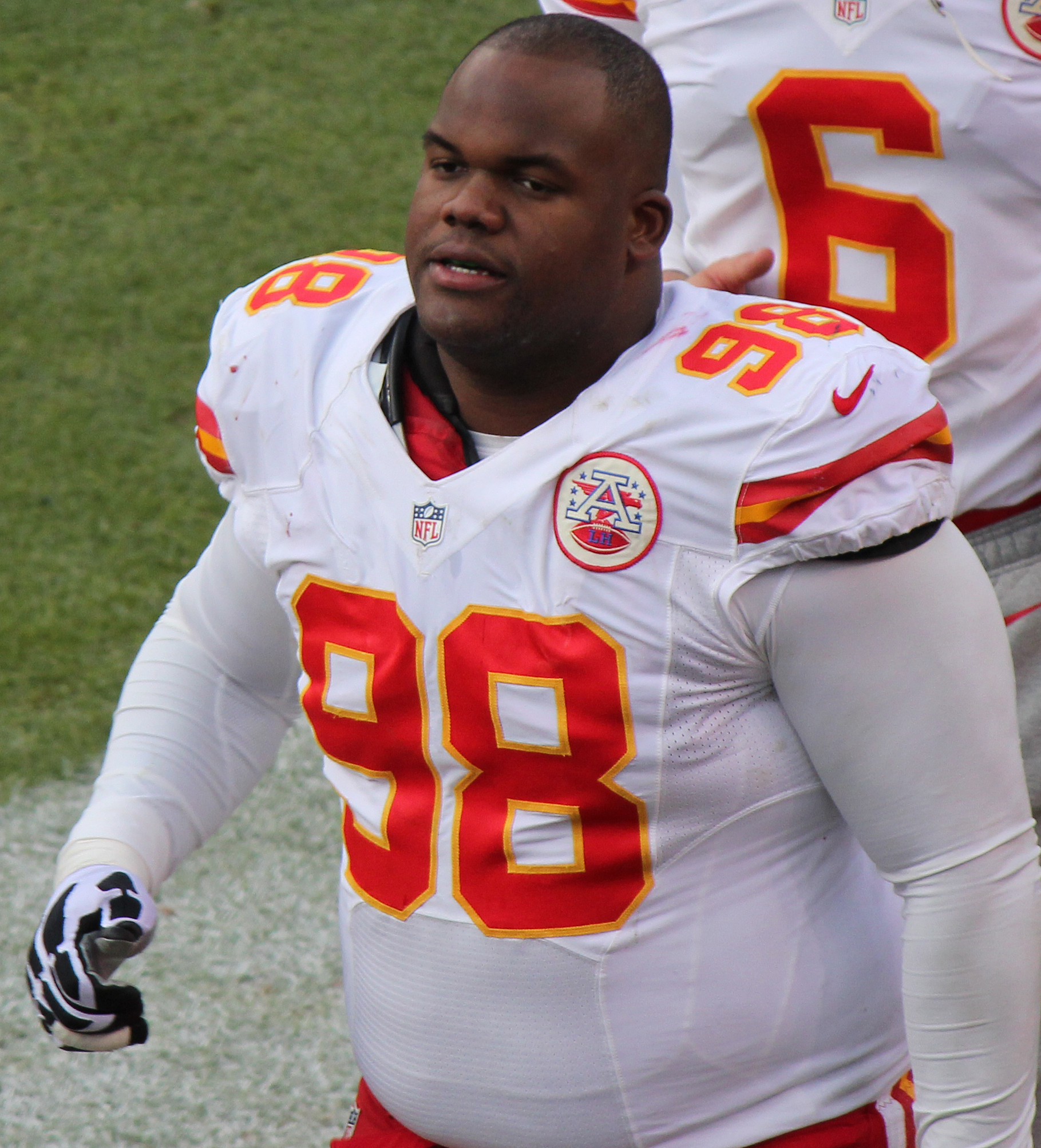 Anthony Toribio, a player on the National Football League.